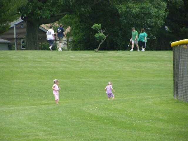 Walking the circuit at Fairground Park, Valparaiso, Indiana